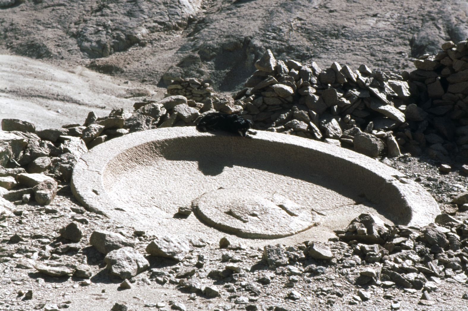 Split base of a fountain approx. diameter 3m, Mons Claudianus, eastern desert, Egypt.